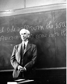 Bertrand Russell lecturing at the University California, Los Angeles where he had taken up a three-year appointment as Professor of Philosophy in March 1939.